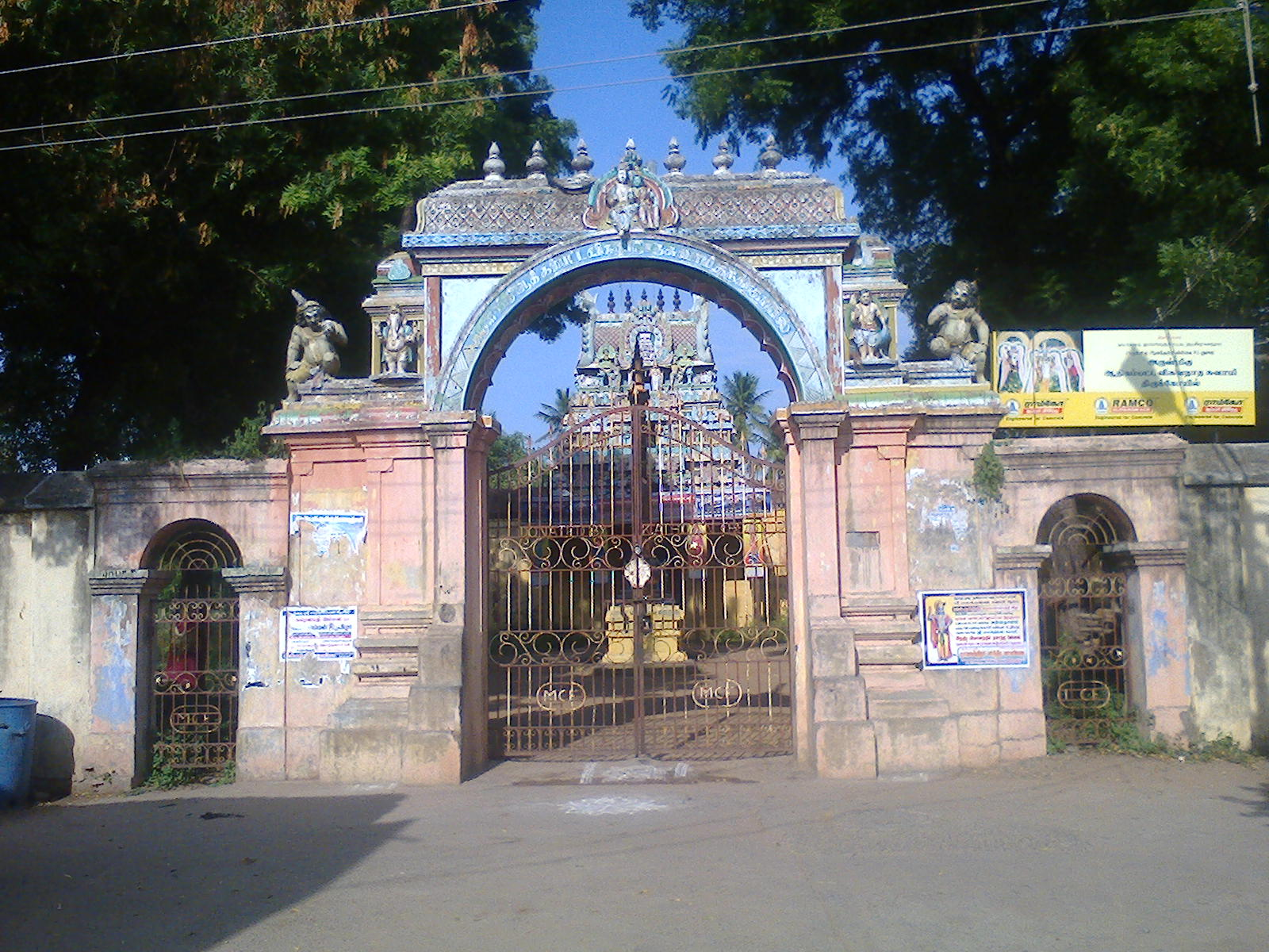 Kumbakonam Kambattavisvanathar temple entranceகும்பகோணம் கம்பட்ட விஸ்வநாதர்கோயில் நுழைவாயில்